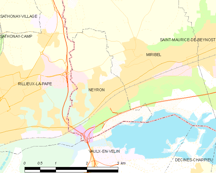 Map of French commune: Neyron Map commune FR insee code 01275.png